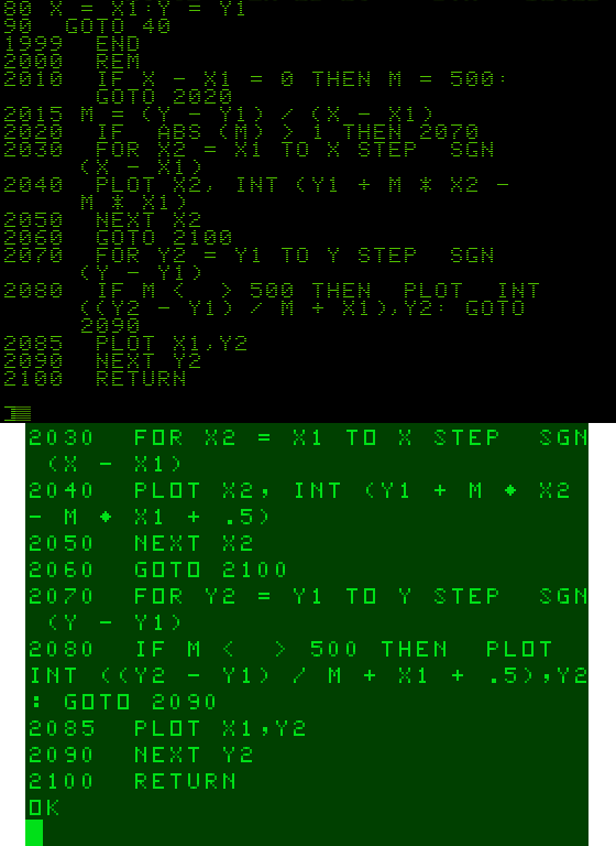 Brazilian CCE MC-1000 is somewhat similar to Apple II in colors of text mode and how BASIC programs are listed.